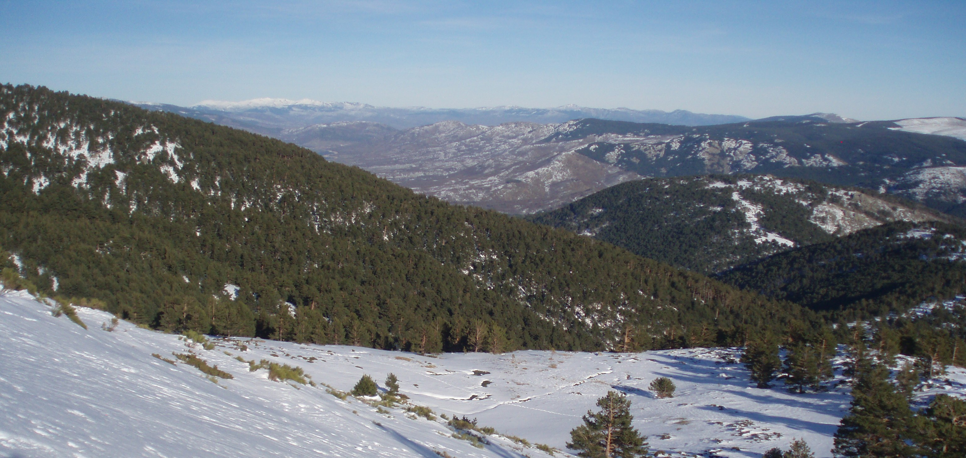 Lozoya Valley seen from the Natural Reserve of Peñalara (Guadarrama mountain range, Central Spain).